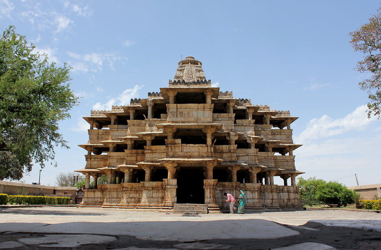 Somnath Temple